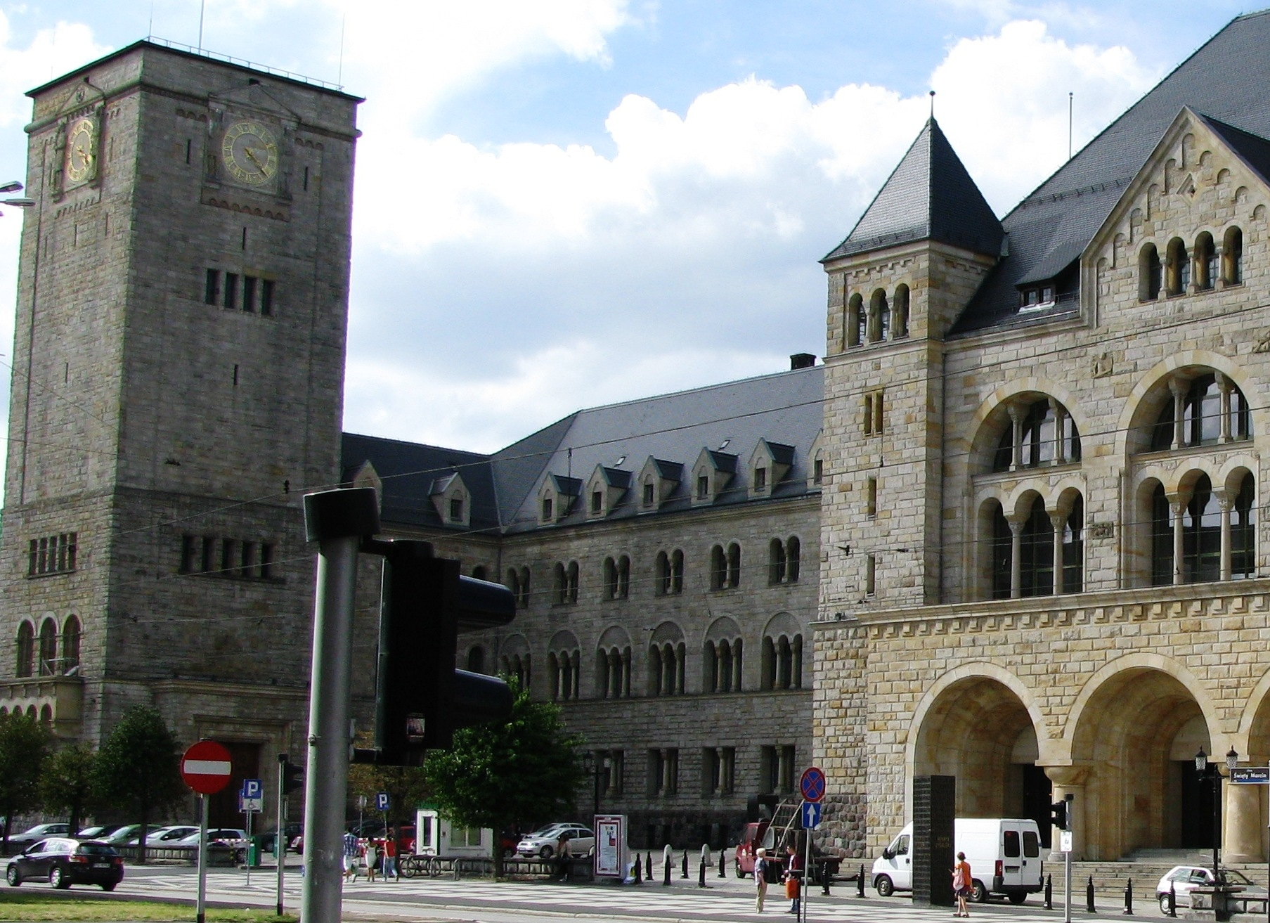 Imperial Castle Poznan